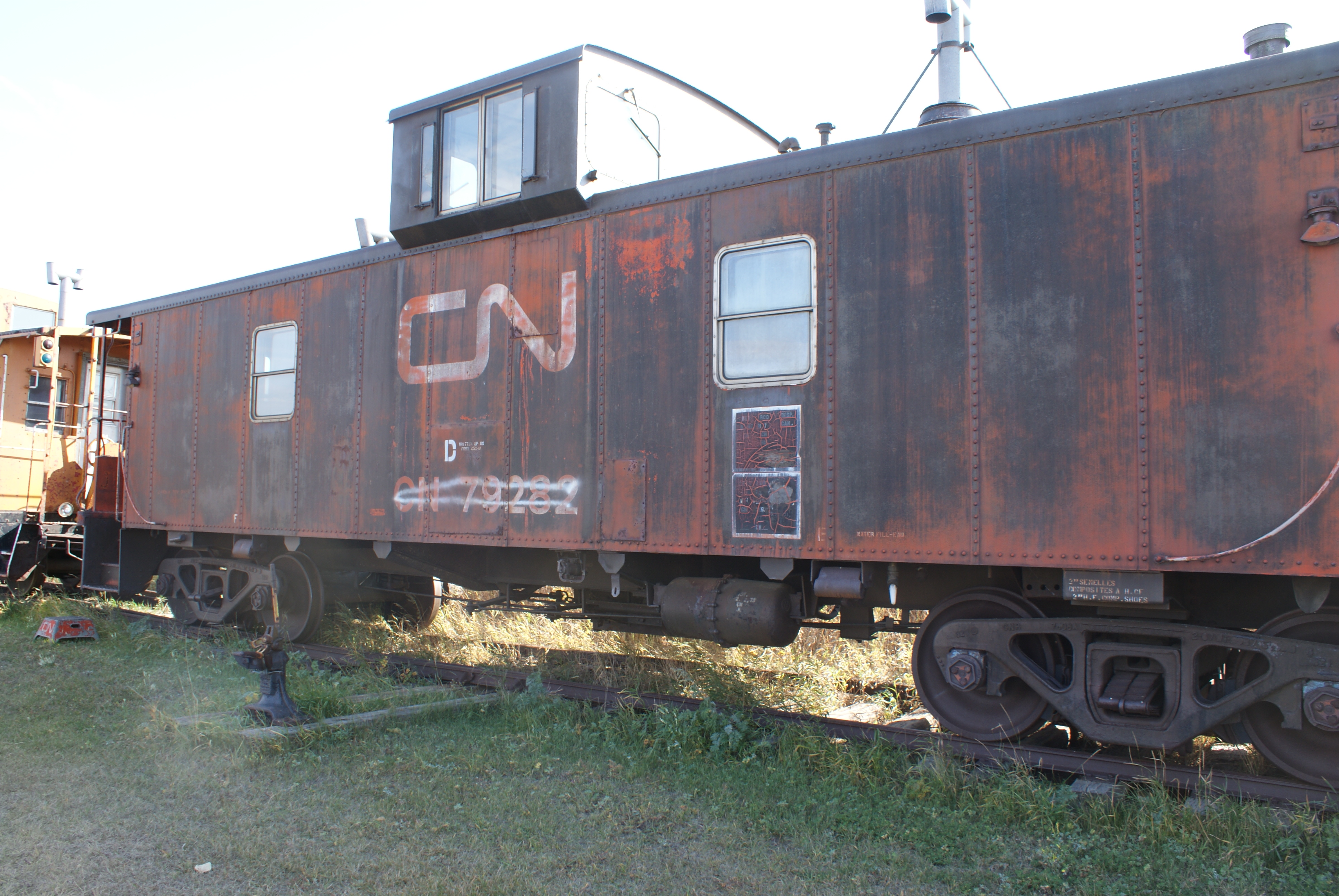 CN #79282 caboose